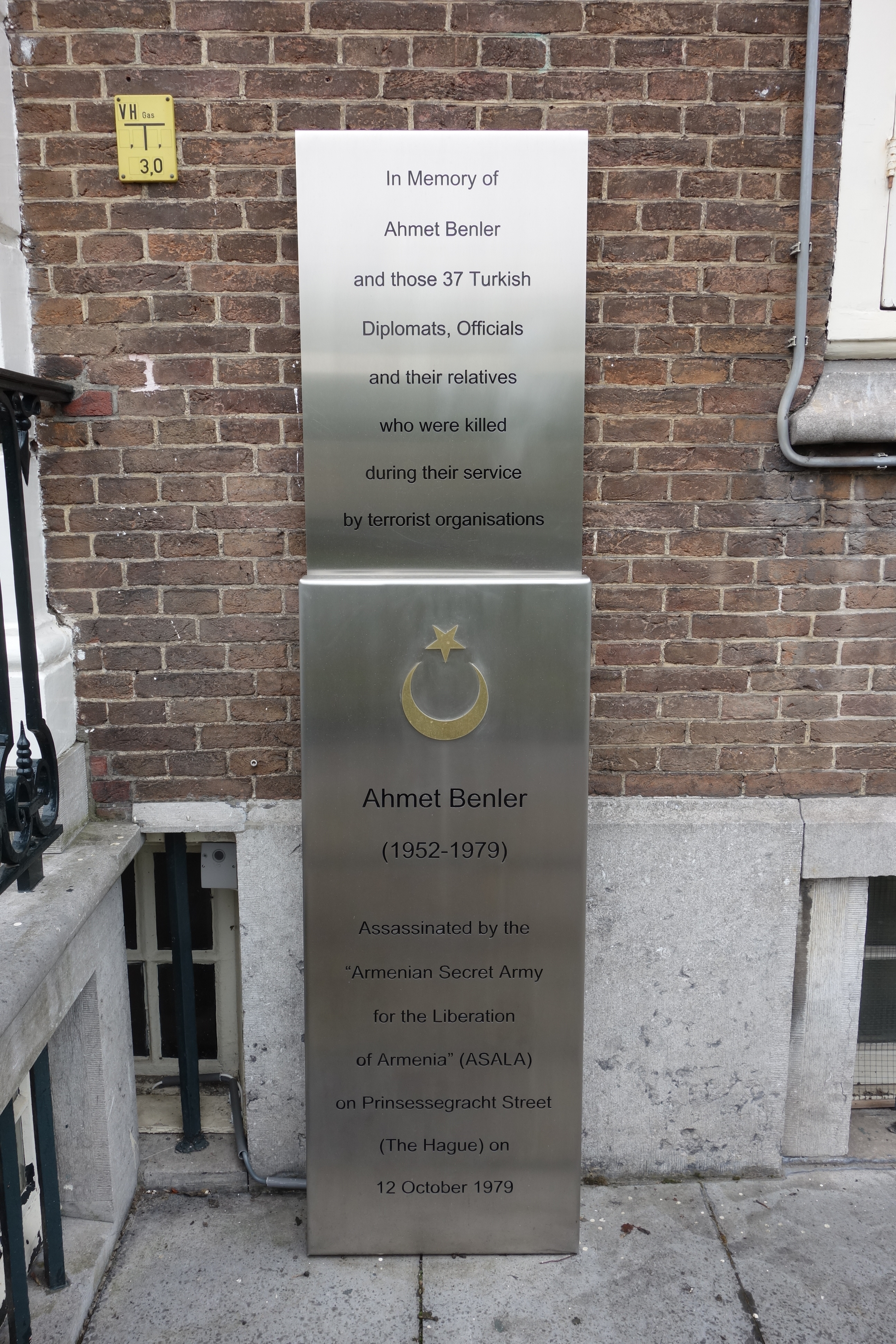 Memorial Monument at the Turkish Embassy in The Hague. Netherlands, honoring Ahmet Benler (1952-1979) and other 37 assassinated Turkish diplomats